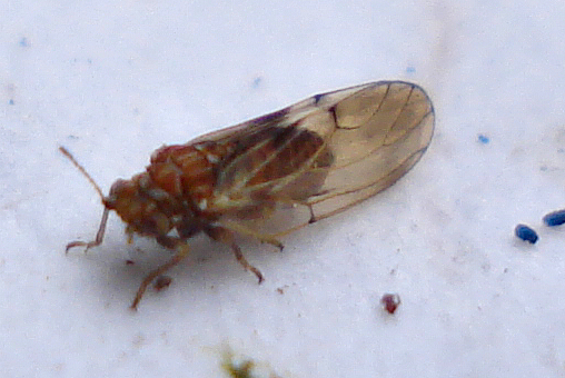 image of Psylla pyri On grass, nettles and brambles Lincoln Size: 3mm